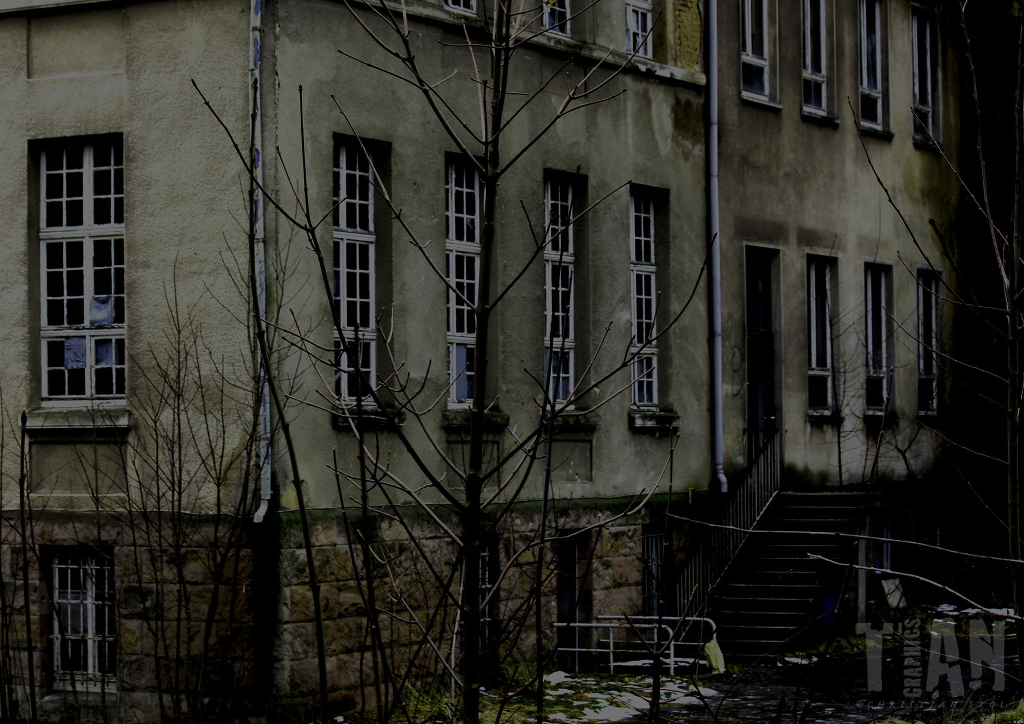 500px provided description: More of my pictures on my Facebook site: [#Kent ,#Architecture ,#School ,#Ruine]